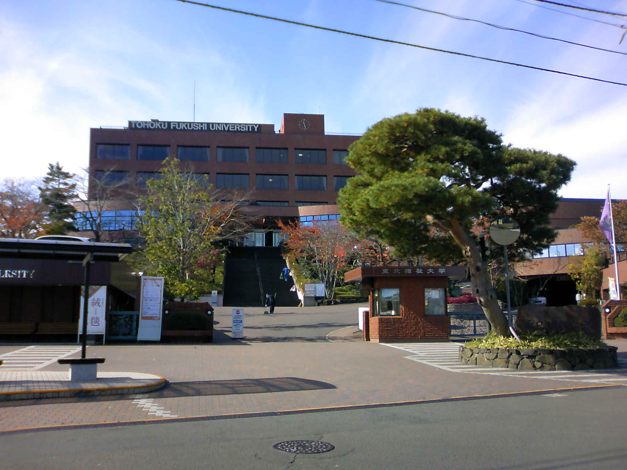 Tohoku Fukushi University's Main Gate